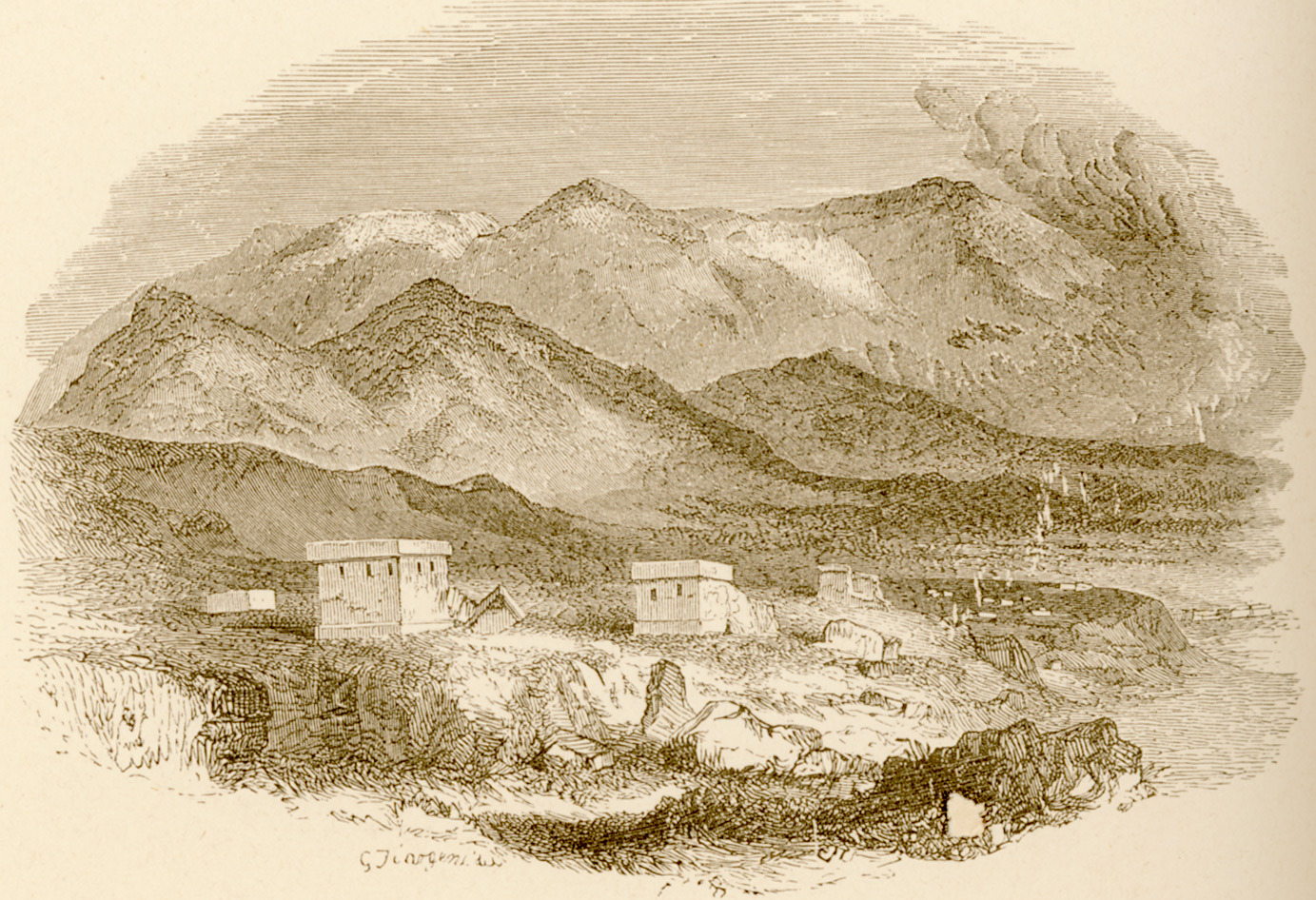 Christopher Wordsworth. Greece Pictorial, Descriptive, & Historical, and a History of the Characteristics of Greek Art, London, John Murray, 1882.